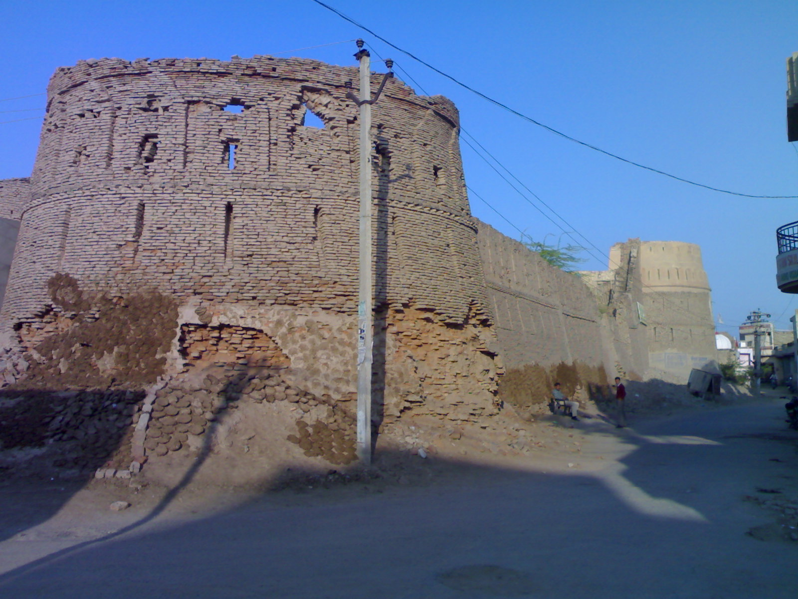 This photo show you Anoopgarh fort.This photo is created by me(user:Shemaroo aka Sivender Singh, ) Shemaroo (talk) 11:25, 5 March 2011 (UTC)